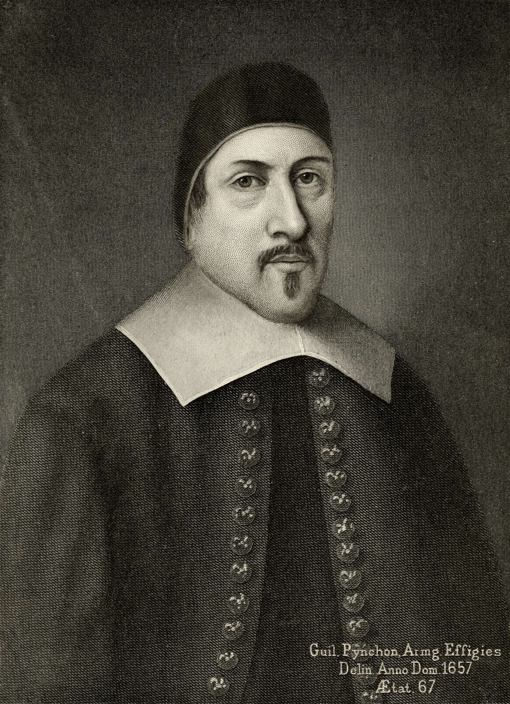 The founder of Springfield, Massachusetts in 1636 - the noble William Pynchon.